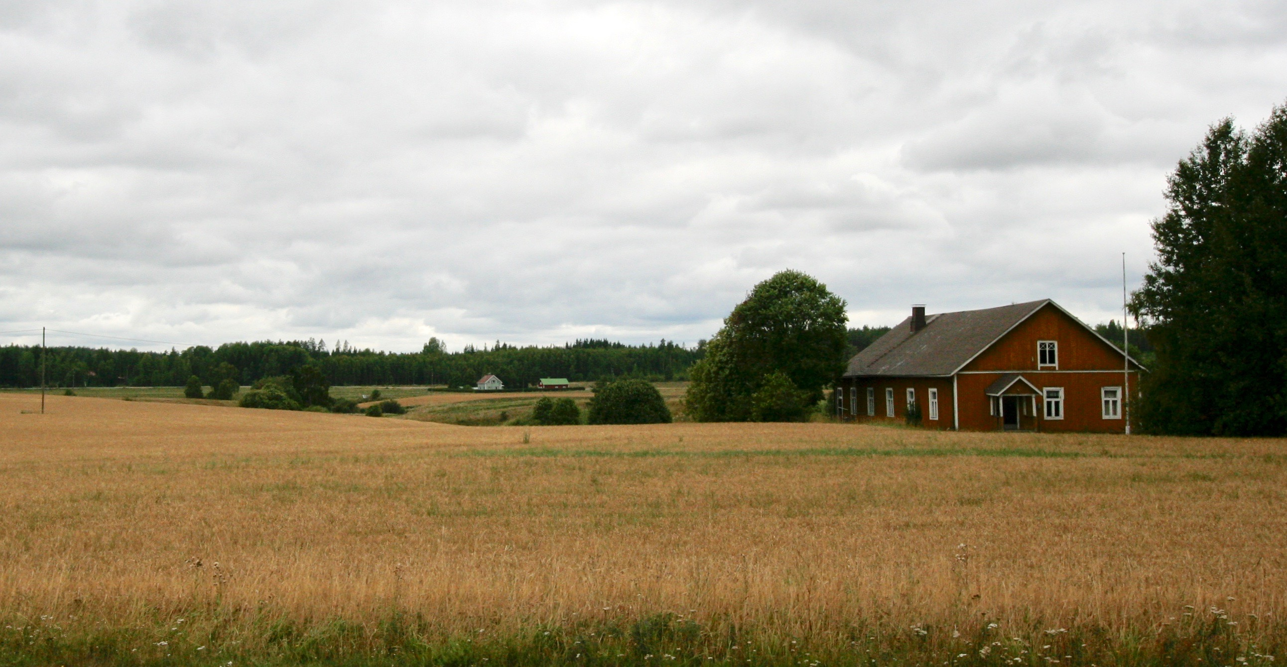 Heinämaa, Orimattila, Finland